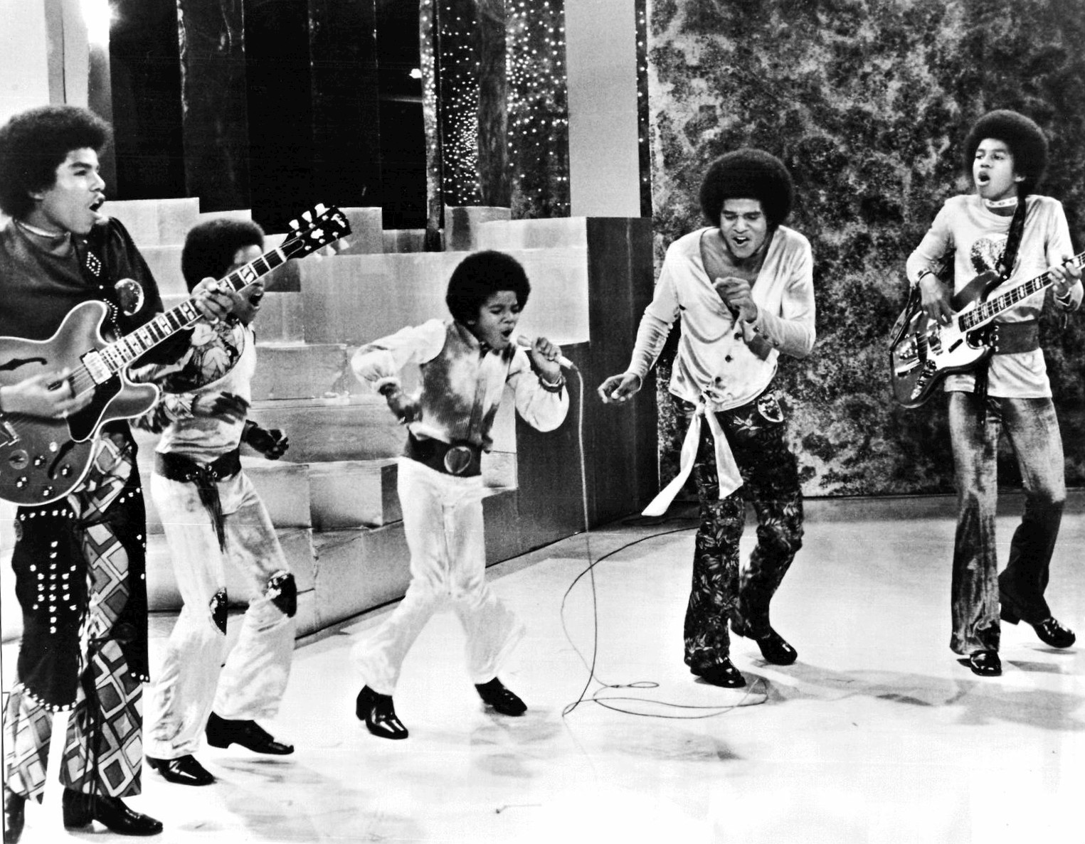 Photo from the Jackson 5's first television special in 1971.